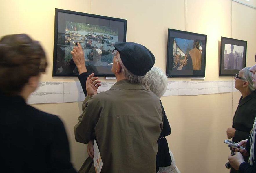 Abkhazia genocide 12th anniversary held in Tbilisi, 2005.